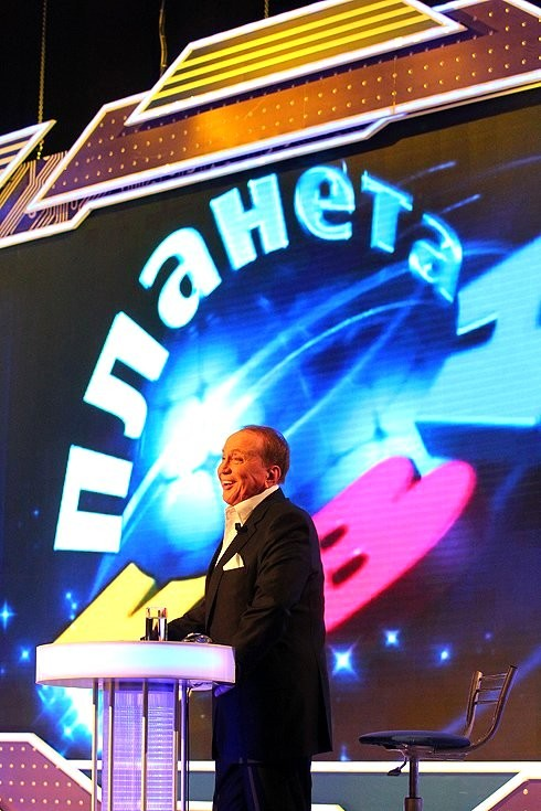 KVN host and producer Alexander Maslyakov at opening of Planet KVN Moscow Youth Centre on April 1, 2013.